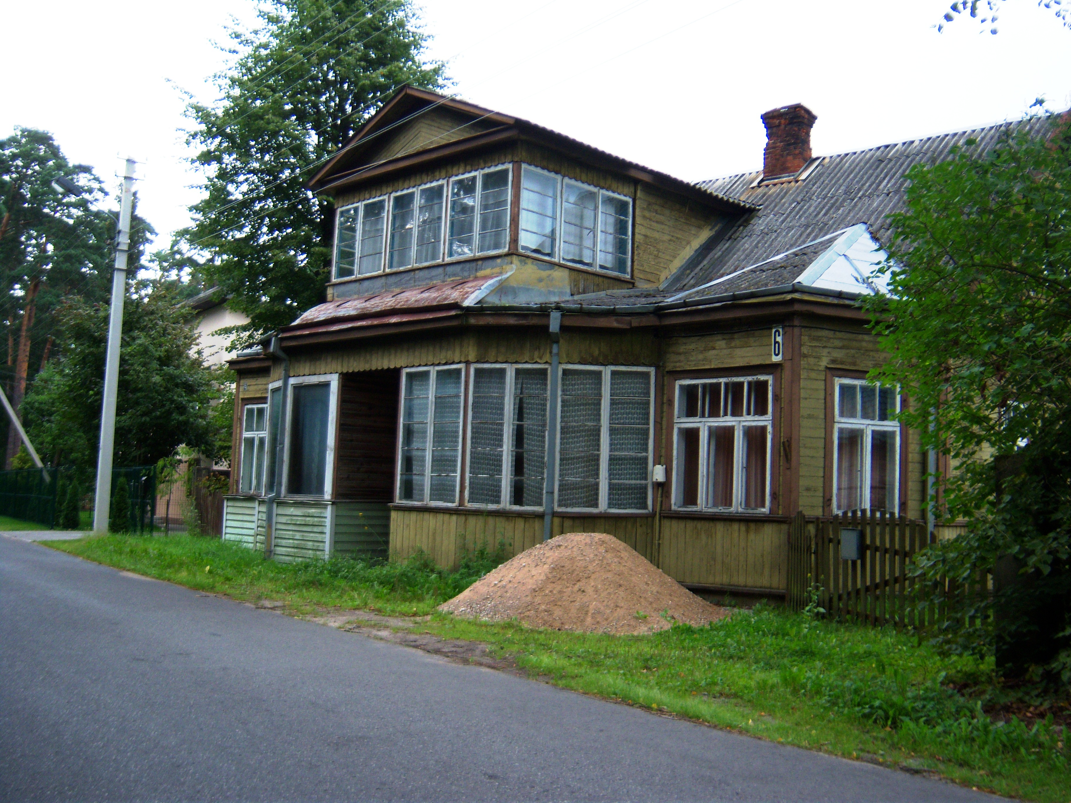 Former Kaunas Fortress general Vladimir Grigoryev's villa in Vičiūnai, Kaunas, Lithuania